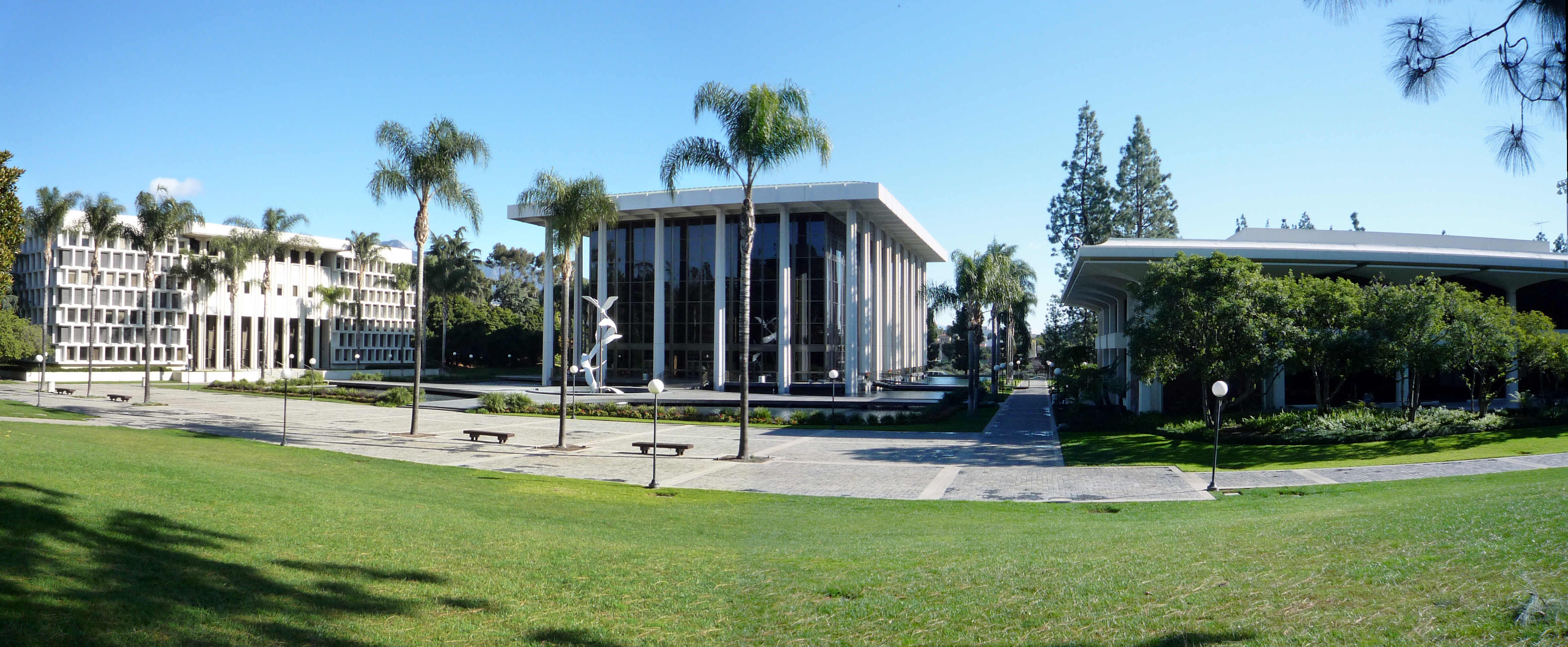 The former campus of the now-closed Ambassador College in Pasadena, California. The Ambassador Auditorium sits at the center; the venue continued to host concerts for several years after the college closed the campus in 1995. The former college campus was sold by the city in 2004 and now belongs to Harvest Rock Church and Maranatha High School.